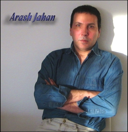 Arash Jahan, Martial Artist